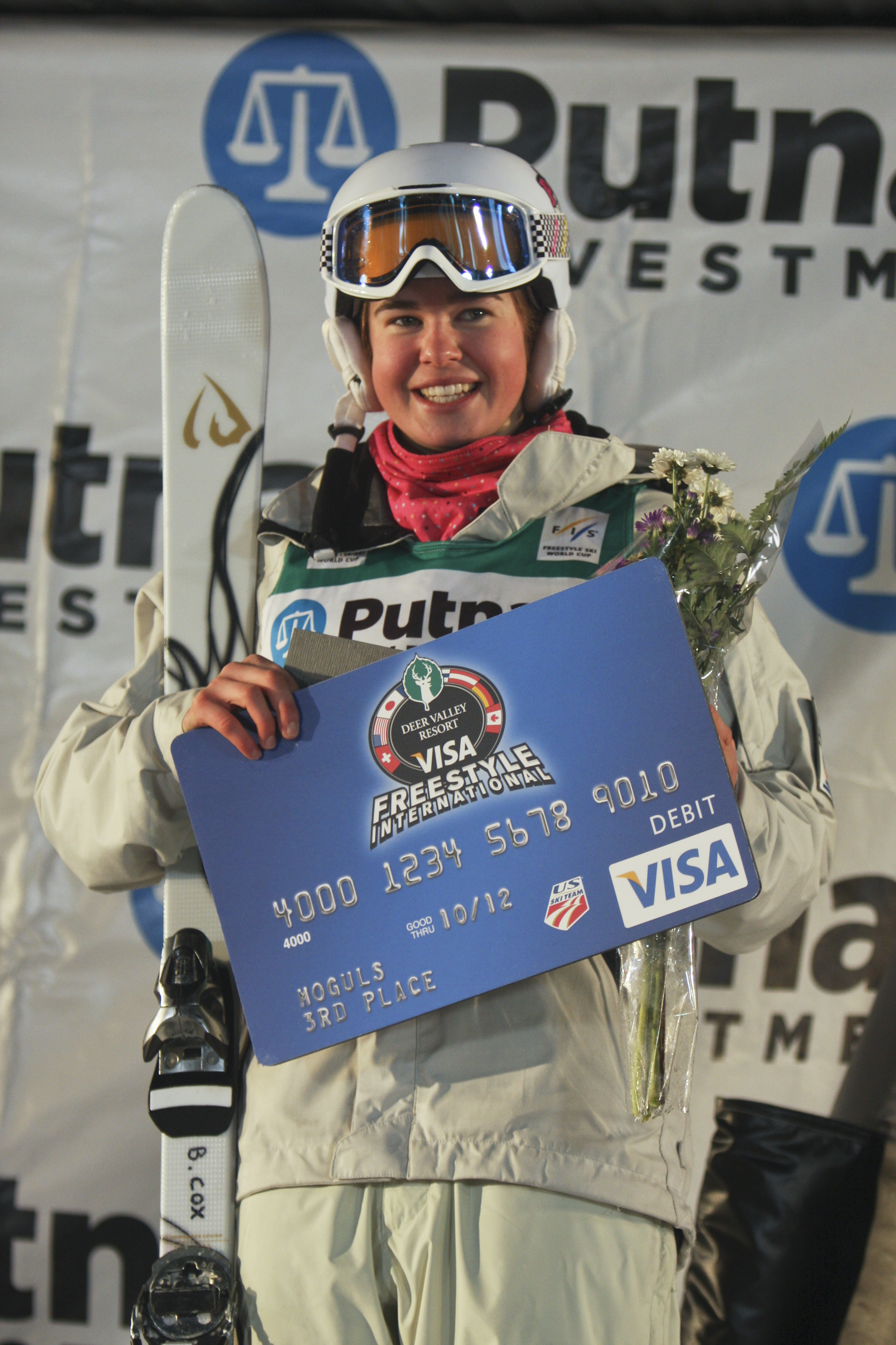 Britteny Cox on the podium at the 2012 Deer Valley, USA, World Cup.